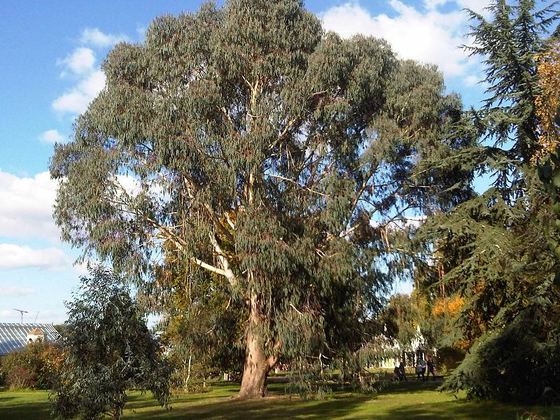 Eucalyptus dalrympleana in Kew Gardens.